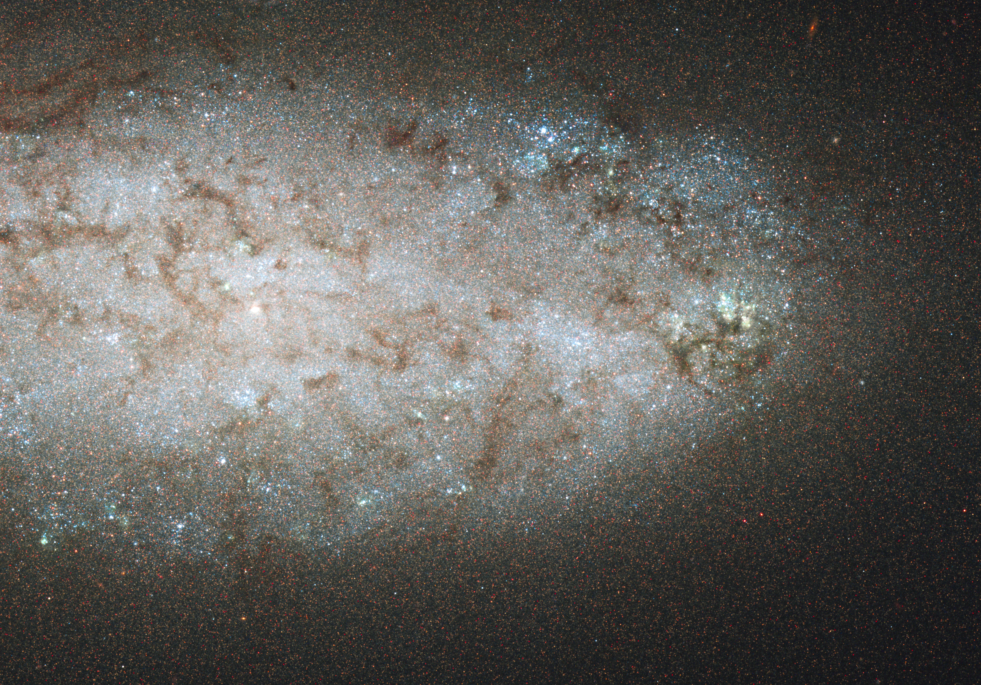 Astronomers were surprised to find that star-formation activities in the outer regions of NGC 2976 have been virtually asleep because they shut down millions of years ago. The celebration is confined to a few die-hard party-goers huddled in the galaxy’s inner region. The explanation, astronomers say, is that a raucous interaction with M81, a neighbouring group of hefty galaxies, ignited star birth in NGC 2976. Now the star-making fun is beginning to end. Images from NASA’s Hubble Space Telescope show that star formation in the galaxy began fizzling out in its outskirts about 500 million years ago as some of the gas was stripped away and the rest collapsed toward the centre. With no gas left to fuel the party, more and more regions of the galaxy are taking a much-needed nap. The star-making region is now confined to about 5,000 light-years around the core.